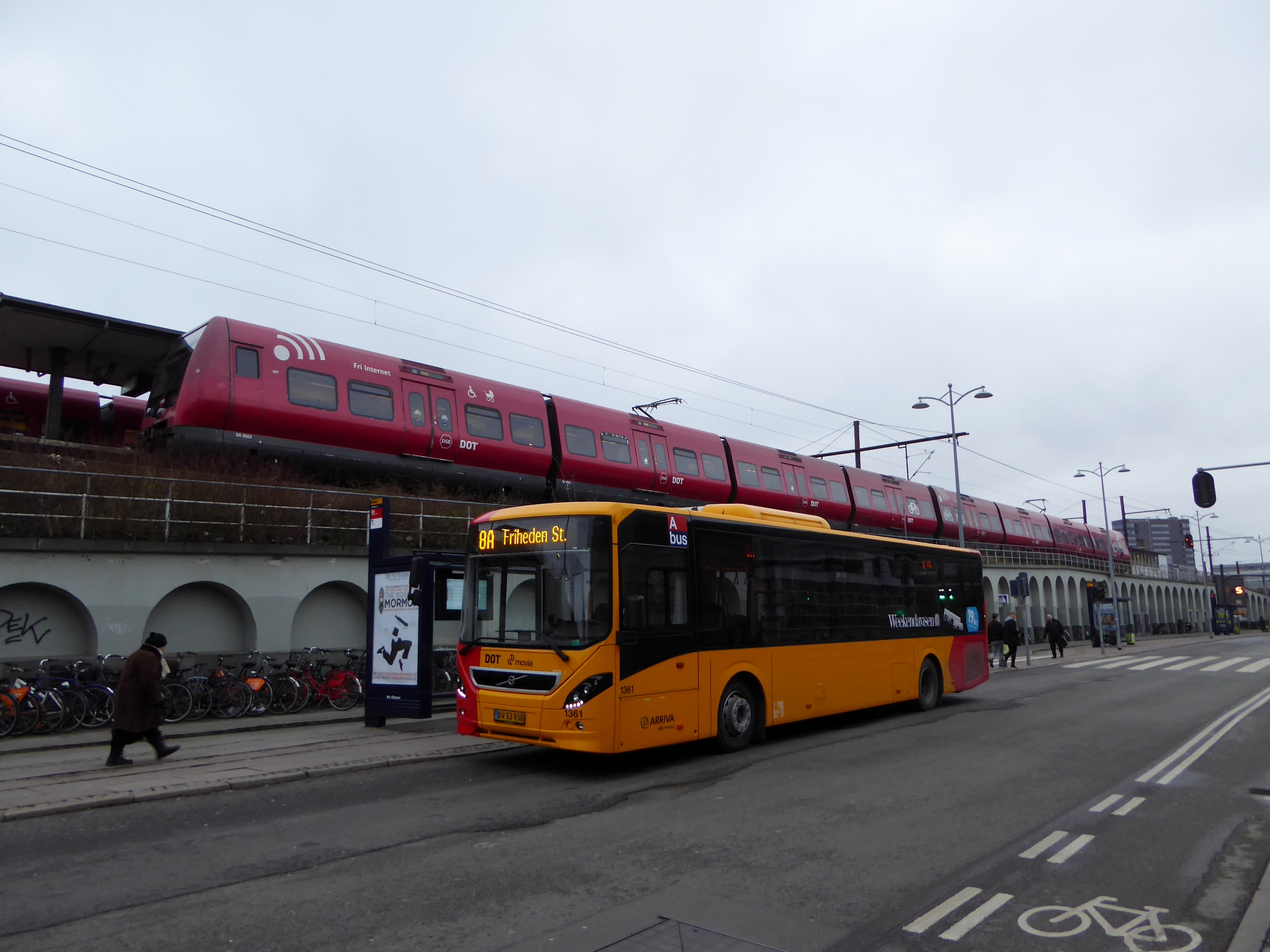 Movia bus line 8A and S-train line A at Nordhavn Station in Østerbro in Copenhagen.